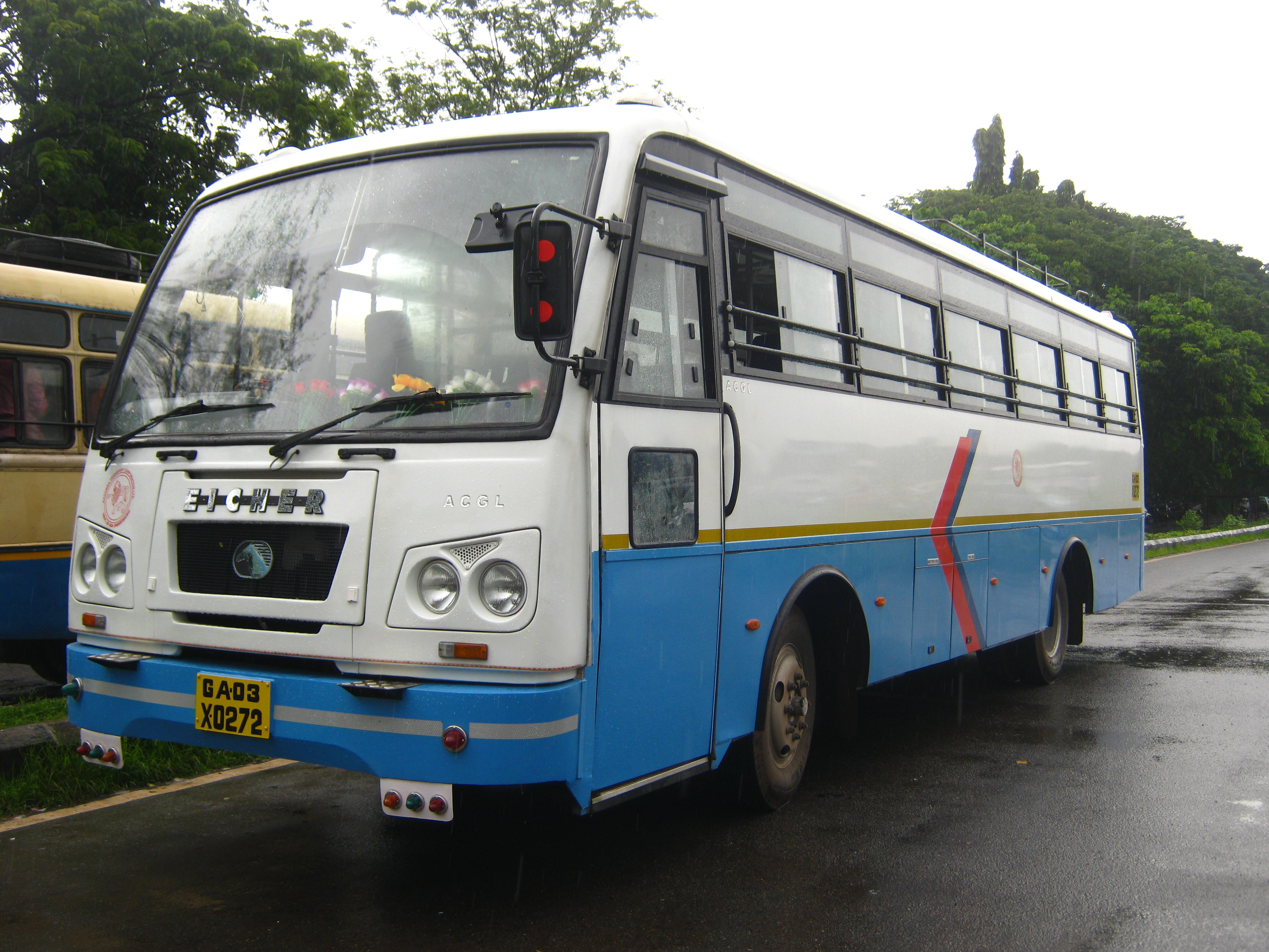 A 2013 Model Eicher 11.12 bus built by ACGL